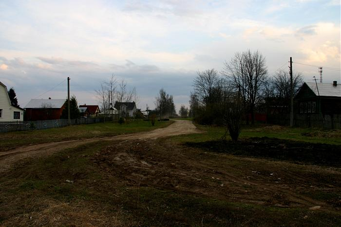 Village Kokovina, Ruza district of the Moscow region.